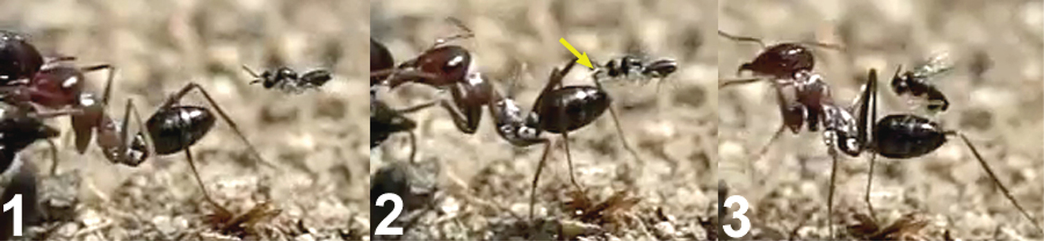 1 female of Kollasmosoma sentum approaches an ant with the metasoma in horizontal position; 2 extends the fore legs (yellow arrow) and grasps the metasoma with the tarsi; 3 jumps over the metasoma placing the rest of its legs on it, and folds its wings.